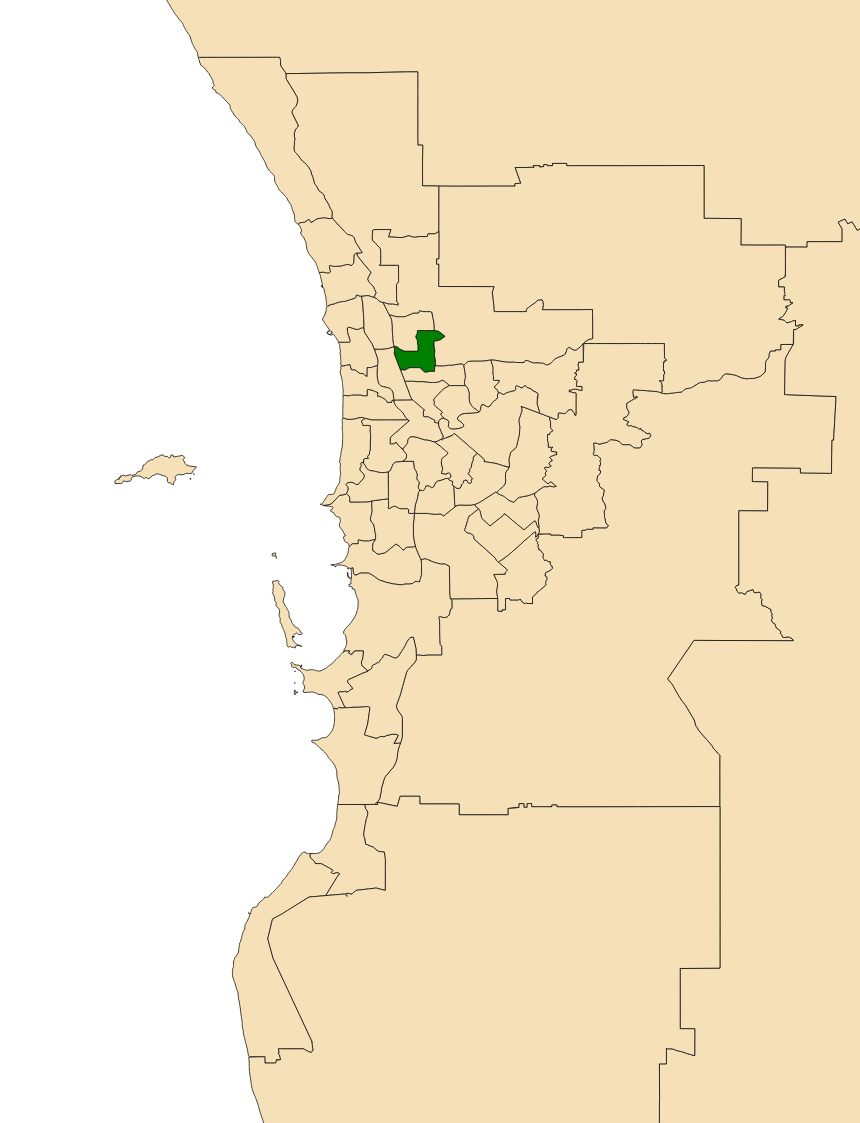 Location of the electoral district of Mirrabooka in the Perth metropolitan area, Western Australia as of the 2017 WA state election.